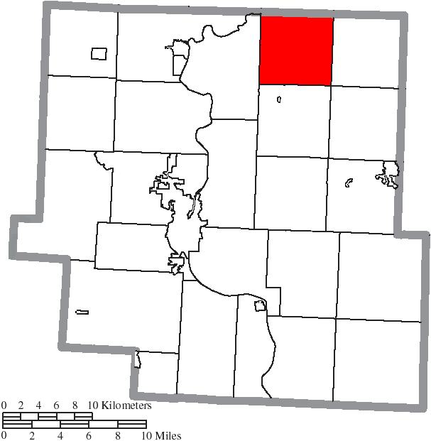 Map of the municipal and township boundaries of Muskingum County, Ohio, United States, as of the 2000 census, with the location of Adams Township highlighted. Township borders are shown only in unincorporated areas in order to differentiate incorporated and unincorporated areas more clearly.